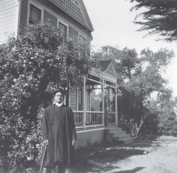 Swami Vivekananda, during this visit to the West